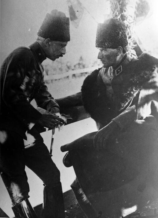 Refet (Bele) and Mustafa Kemal (Atatürk) during the Turkish War of Independence.